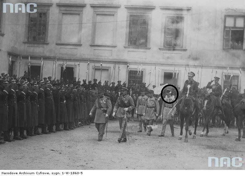 Défilé militaire en 1927